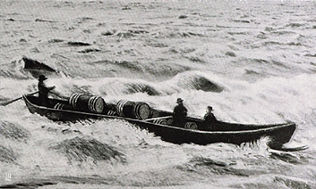 Teerboot auf Oulufluss in Nordfinnland